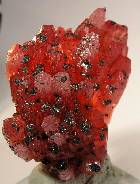 Manganite, Rhodochrosite Locality: N'Chwaning Mines, Kuruman, Kalahari manganese fields, Northern Cape Province, South Africa (Locality at ) Size: miniature, 3.4 x 2.9 x 2.1 cm Rhodochrosite with Manganite This lovely Rhodo has excellent luster and a very juicy, cherry-red color. It is sparklya nd bright, in part due to a druse on some crystal tips of submillimeter quartz, deposited atop. Many of the Rhodo scalenohedrons, which reach up to 1 cm in length, have this quartz cap which makes them look like white sugar was sprinkled atop. Some of the terminations are also sprinkled with glittering black, metallic crystals of manganite which increases the visual interest greatly. Overall, thus, we have the manganite and the quartz accents on an already superbly cherry-red rhodo, and the result is a VERY unique and choice specimen! It is a miniature that stands out from the crowd (not that there are many to go around these days, as this was mined in 1979-1982). While it is difficult to find a good rhodochrosite from these finds today, they DO turn up time to time on the market. However, usually they are price prohibitive to own, and I have seen few as unique in style as this combination specimen (at a reasonable price)